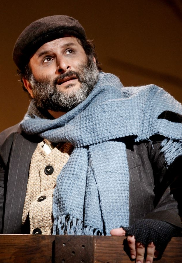 Aaron Zebede as Tevye the Milkman on Fiddler on the Roof in Panama, Oct. 2012